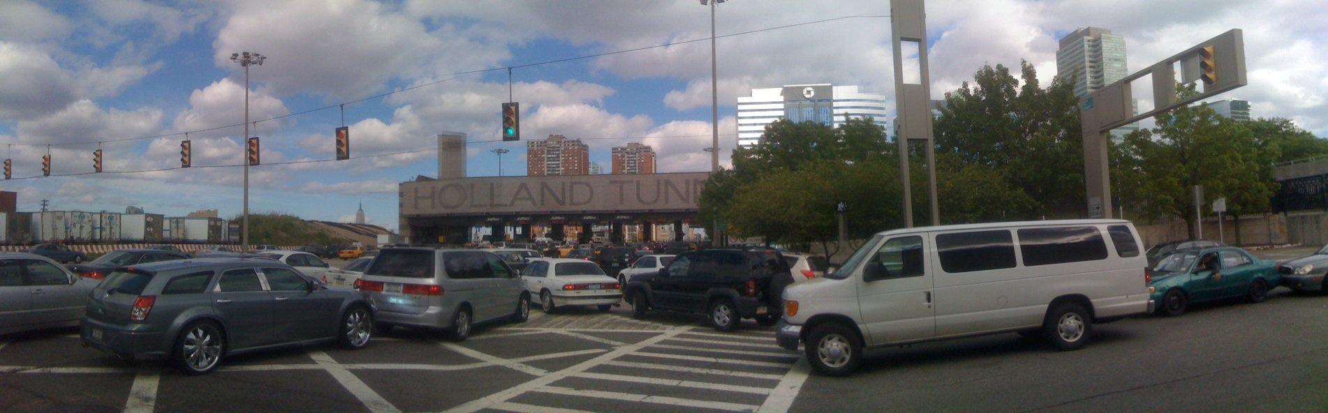 Holland Tunnel from the New Jersey Side in Jersey City.